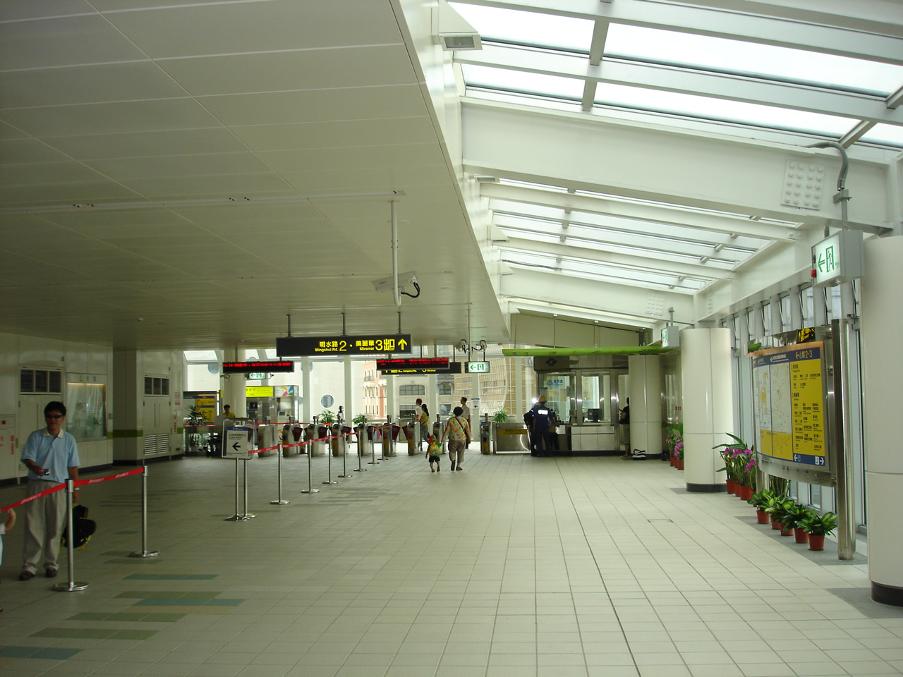 The inner of MRT Jiannan Road Station.